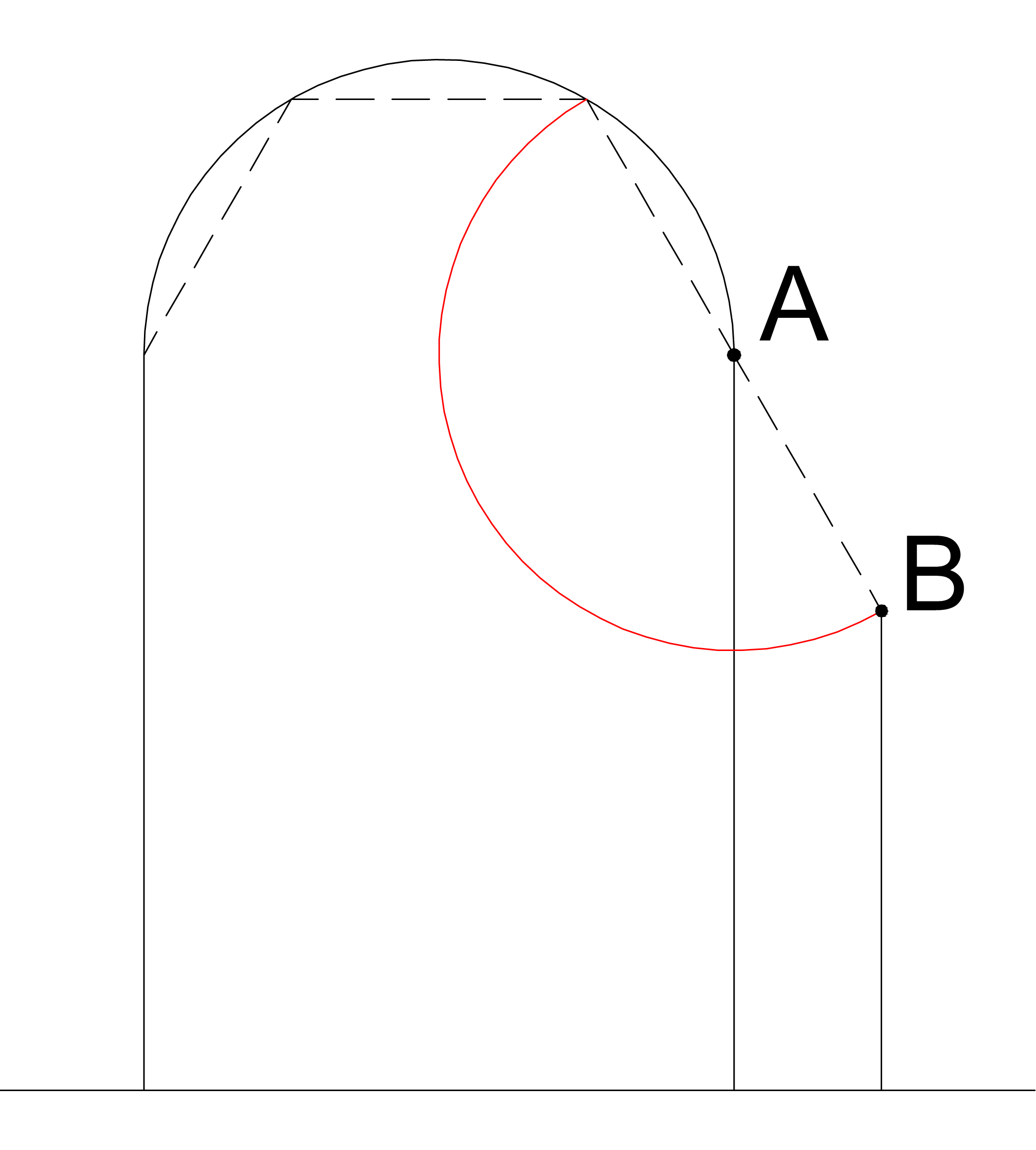 According to the rules of art, using graphical method of calculating the minimum size of the pier.